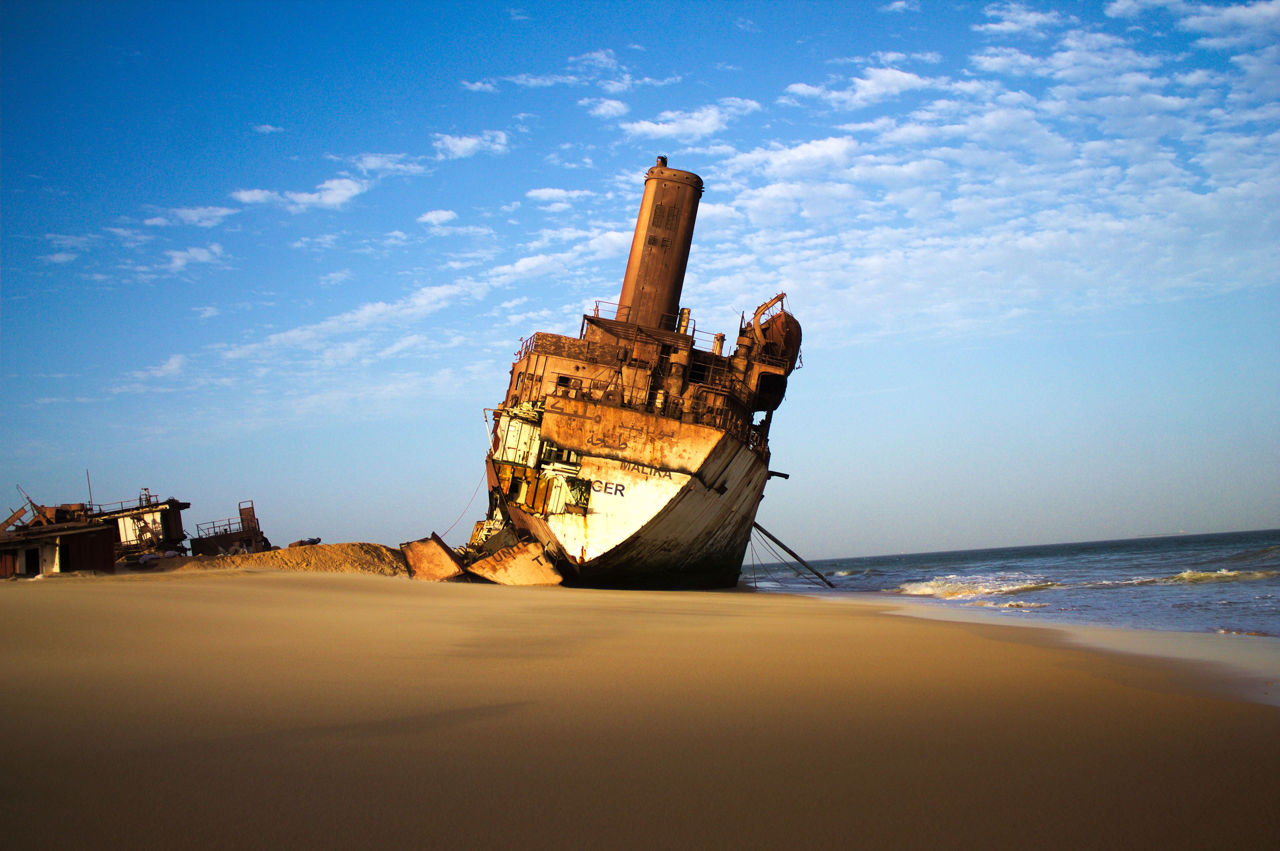 This ship ran aground in 2003. You can see photos on the internet where it is gleaming white. Clearly the weather and salvage operation have not been kind to it. The ship is big so it was a sight to behold.